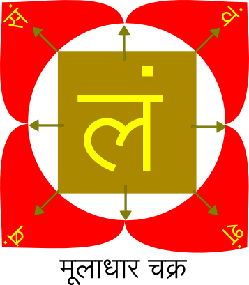 Depiction of Muladhara Chakra